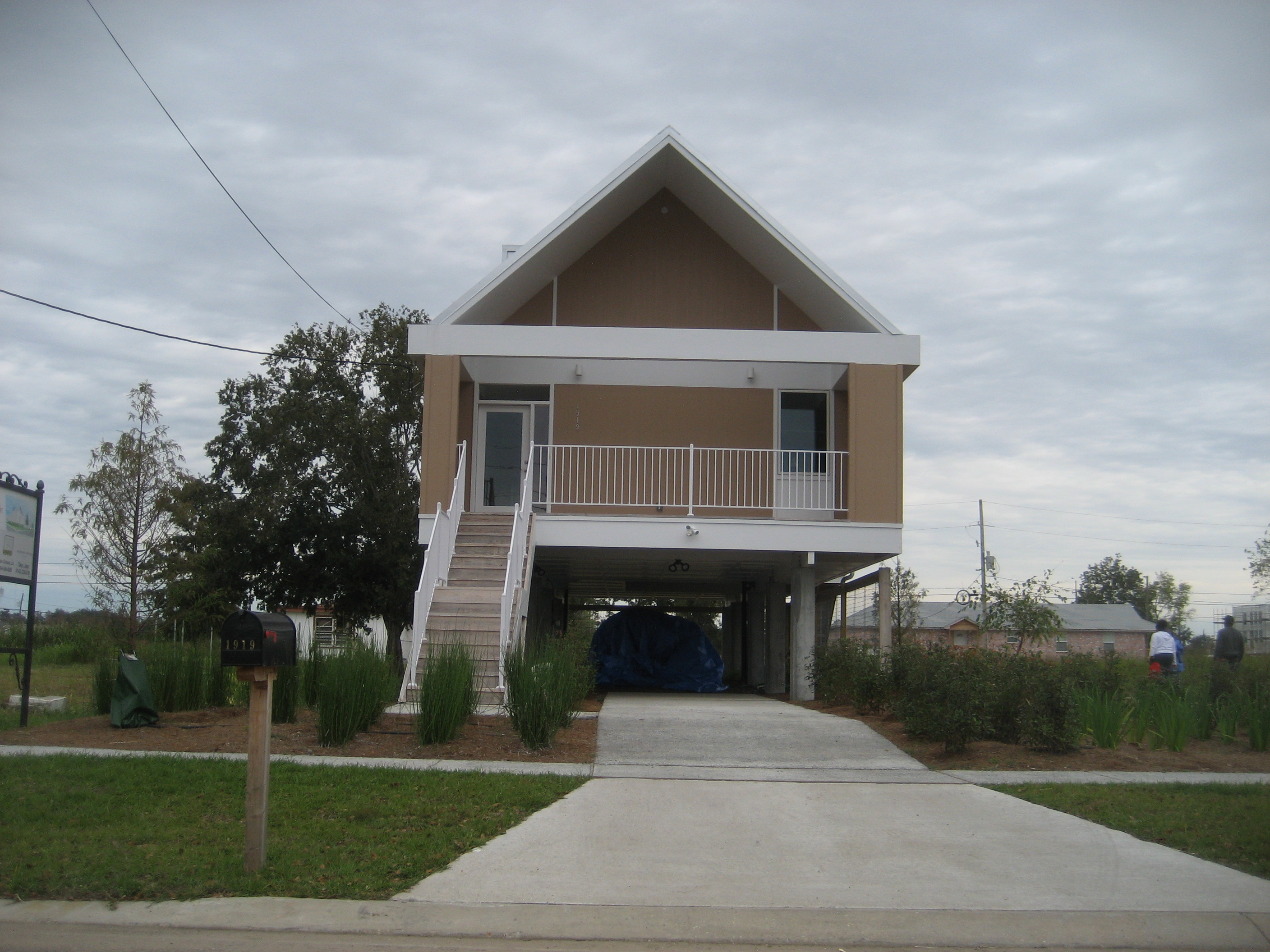 New housing in the Lower 9th Ward of New Orleans.